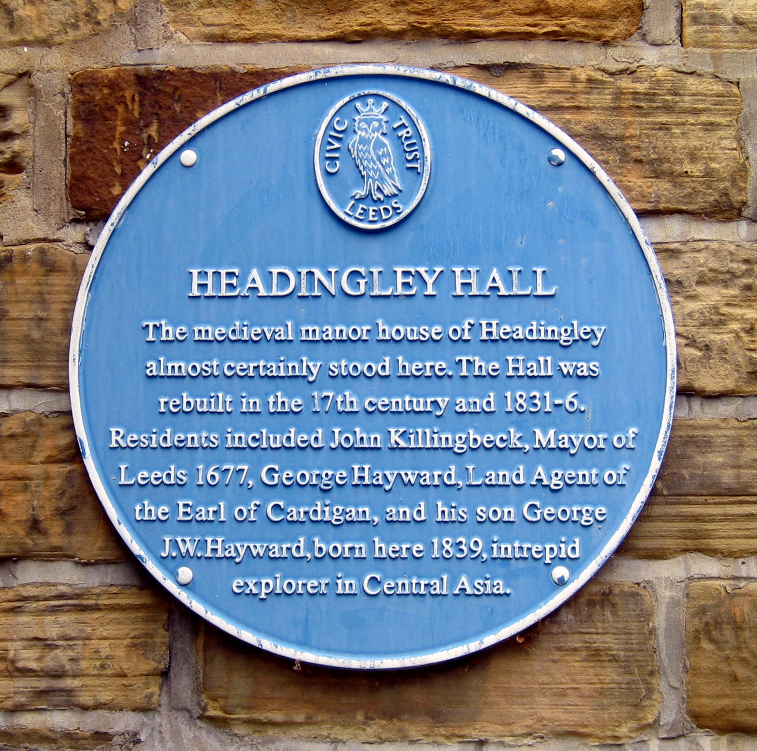 Blue plaque on Headingley Hall care home, 5 Shire Oak Road, Leeds Leeds LS6 2DD. Commemorates the former manor house, and some residents: John Killingbeck, George Hayward, George W. Hayward.